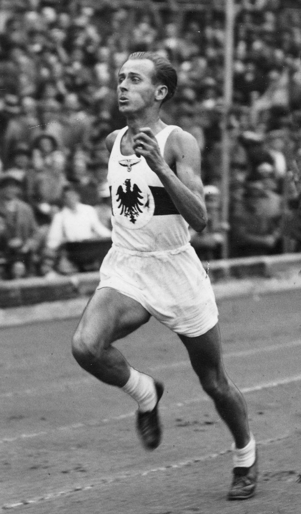 Max Syring (left) near the finish of 10,000 m race at a Sweden-Germany meet